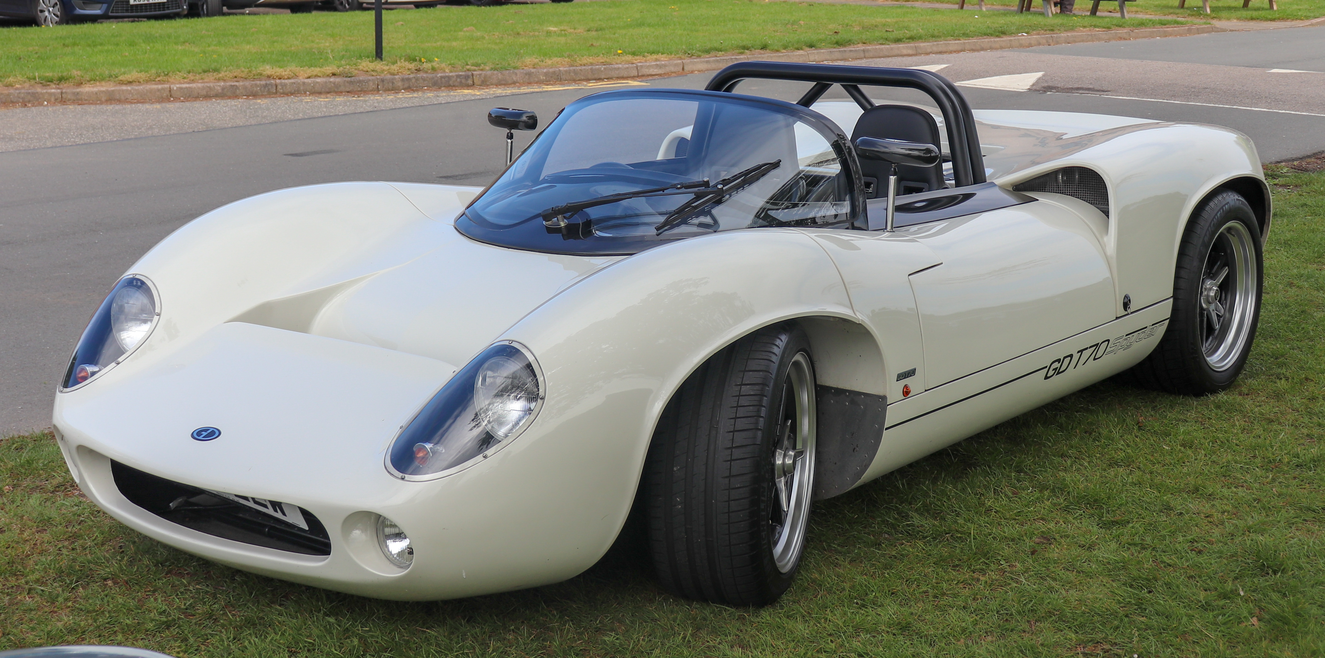 2012 Gardner Douglas T70 Spyder 7.0 Front Taken at the Stoneleigh National Kit Car Motor Show 2019